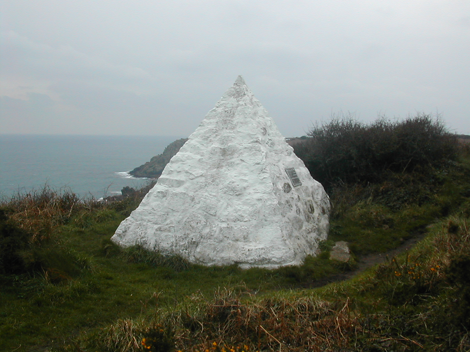 The cliff top white pyramid constructed after the demolition of the Porthcurno to Brest (France) submarine telegraph cable termination hut at Porthcurno, near Penzance, Cornwall, United Kingdom Author Chris Angove June 2006